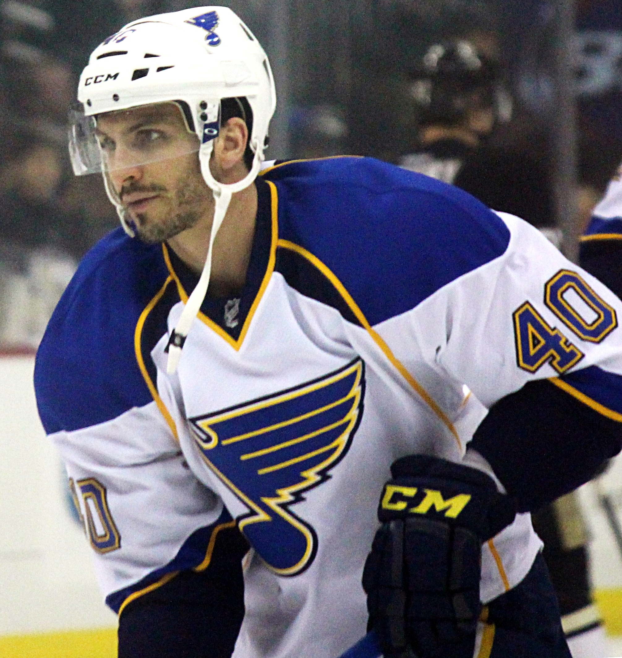 St. Louis Blues forward Maxim Lapierre skates against the Pittsburgh Penguins, March 23, 2014, at Consol Energy Center in Pittsburgh, PA.